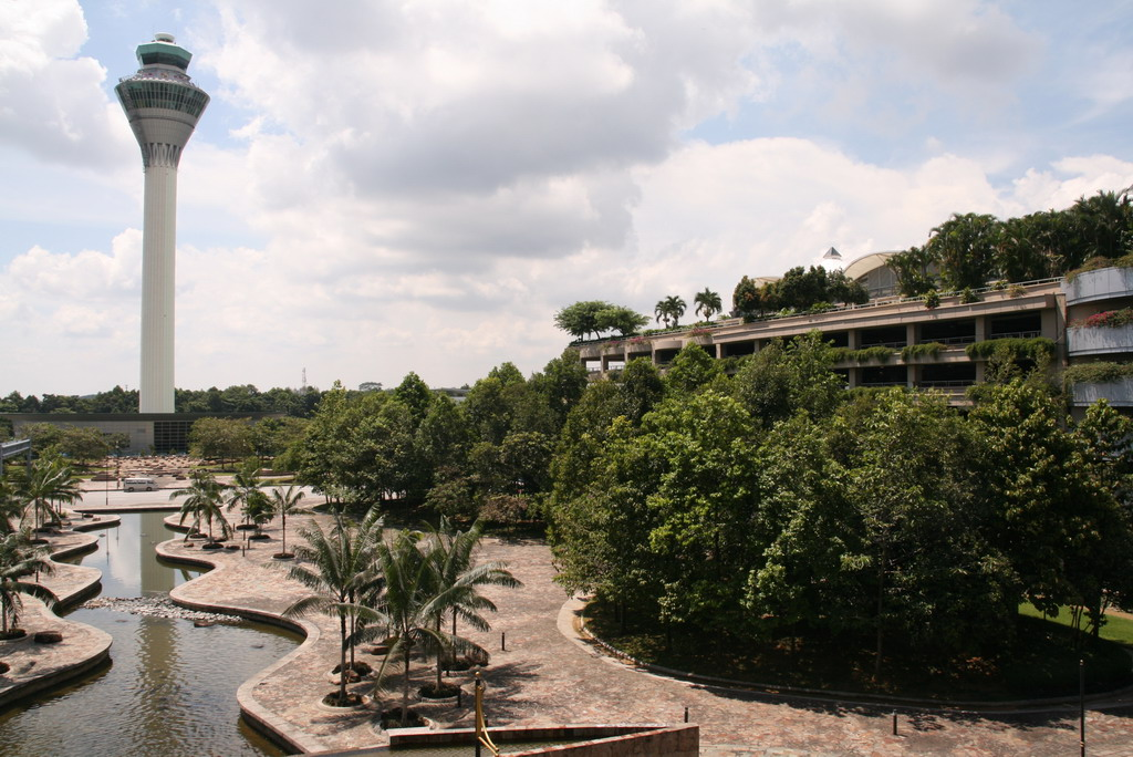 Parking bldg and landscape of KLIA (By A. Aruninta)